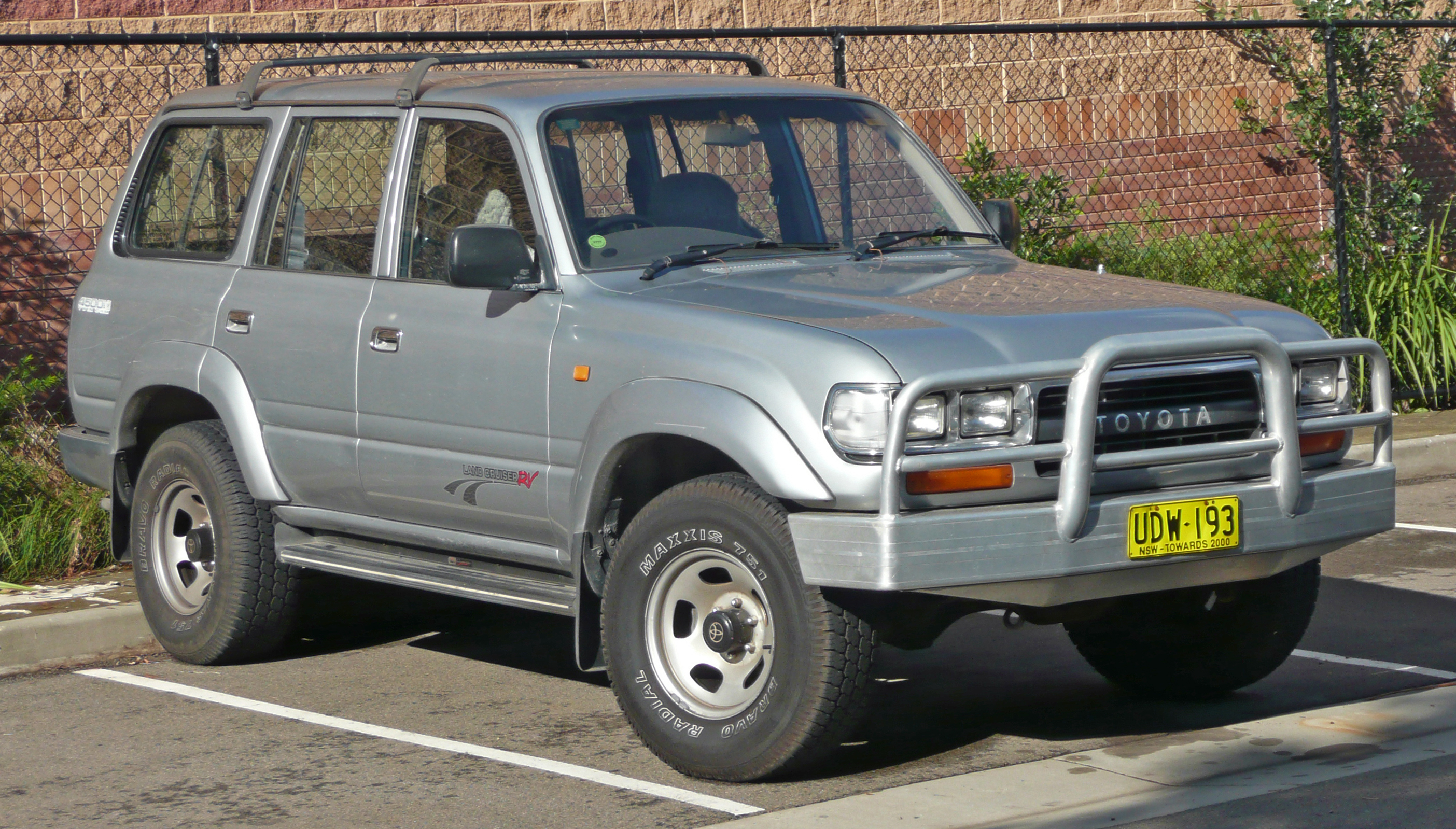 1993 Toyota Land Cruiser (FZJ80R) RV wagon. Photographed in Cronulla, New South Wales, Australia.